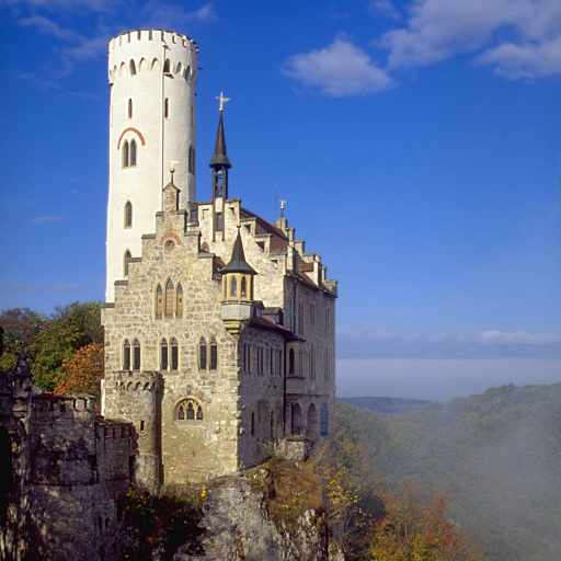 I needed a test image to be used in some examples of image processing. In books and articles, Lenna is commonly used, but I can't use it on Commons because it is not in the public domain. I took a look at the featured pictures, and I have decided to use Image:Lichtenstein.jpg because it has several details (higher frequencies) in the bottom left and almost no details (lower frequencies) in the top right, plus sharp edges (between the castle and the sky). It's not as pretty as Lenna, but it's a good compromise! Moreover, it was not taken with a digital camera, so it does not show the typical artifacts due to Bayer pattern. Using GIMP, I have cropped the original image in order to have a squared picture, then I have downscaled it to 512x512 pixels using bi-cubic interpolation: this way the smaller image should have all the frequencies and the artifacts of the original JPEG compression should be negligible. I saved it in a lossless PNG to save the higher frequencies that could be removed by a JPEG compression. Those are the pictures I have created starting from this one